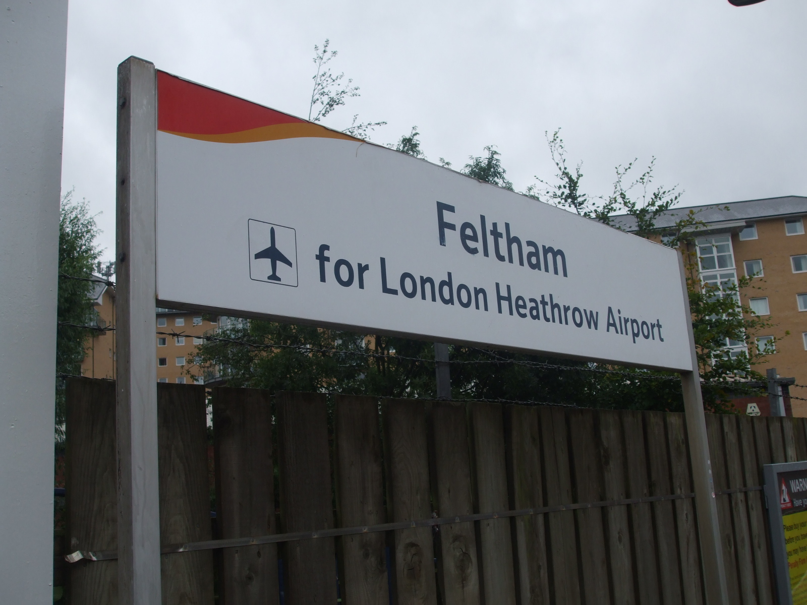 Signage on platforms at Feltham station. Note that the airport is a considerable bus ride away.